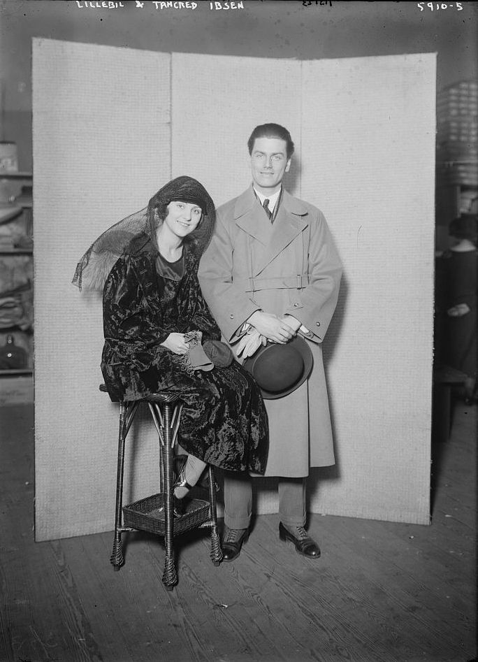 The Norwegian aviator and film director Tancred Ibsen and his wife, actress Lillebil Ibsen.